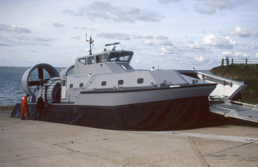 Prototype ABS Hovercraft M10 at Lee on Solent during trials. Scanned from a Fujichrome 35mm slide.